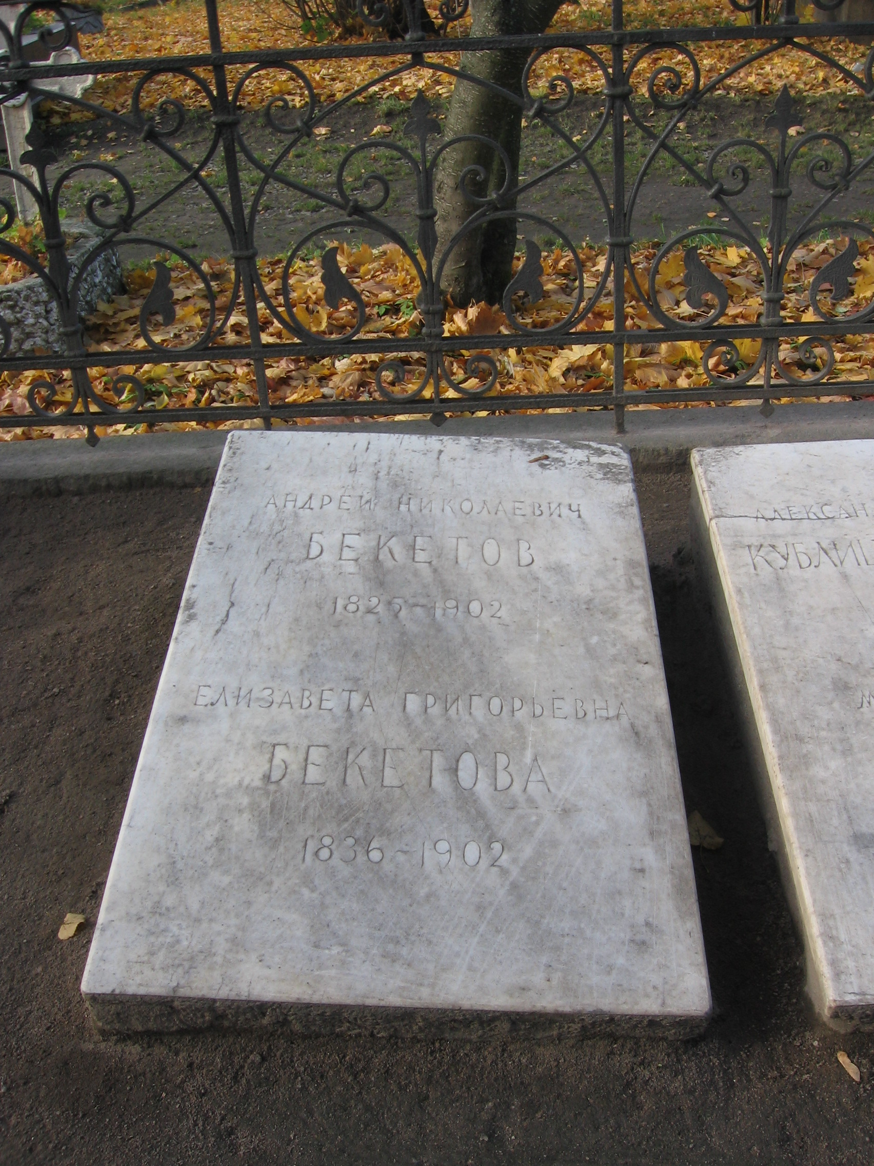 Grave of Andrey Beketov and Elizaveta Beketova